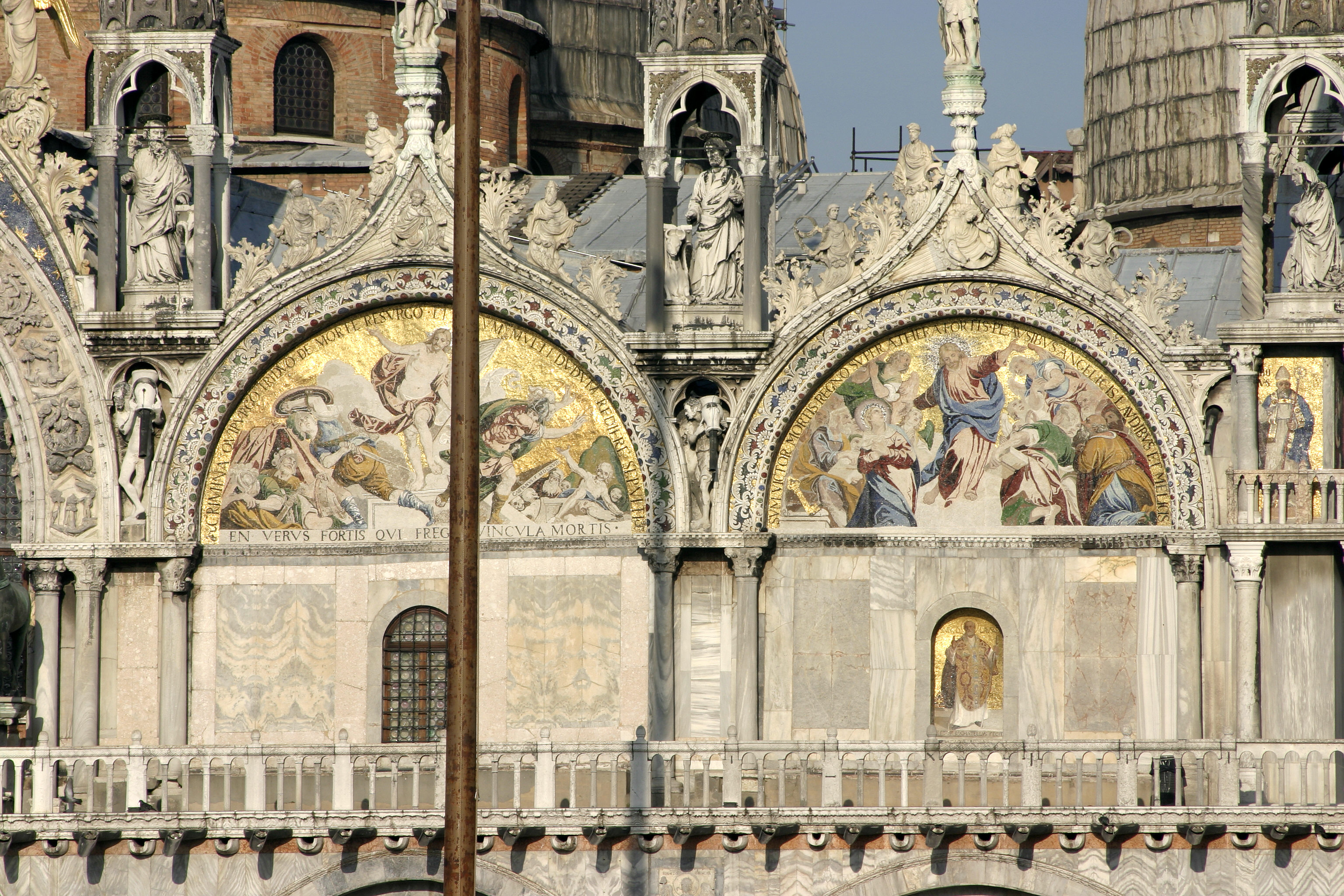 Venice - St. Marc's Basilica – Detail